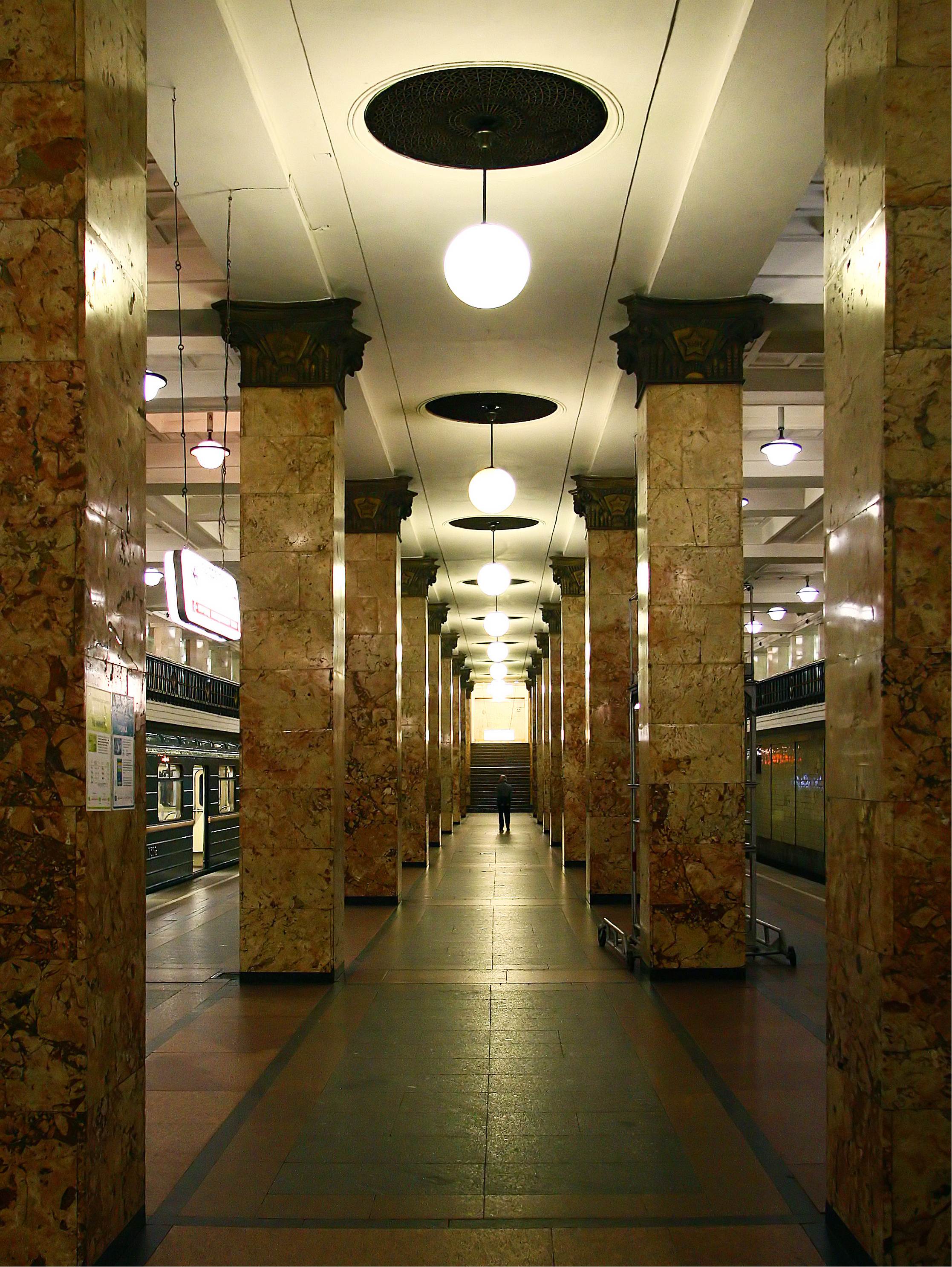 The Komsomolskaya Metro Station